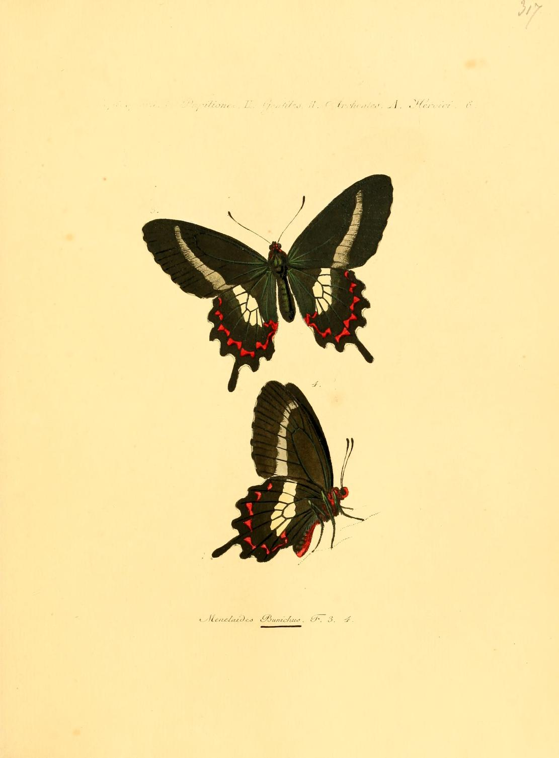 Jacob Hübner, [1821] Sammlung exotischer Schmetterlinge Vol. 2 ([1819] - [1827] Plate 103 Menelaides bunichus Hübner, [1821] synonym for Parides bunichus (Hübner, [1821])